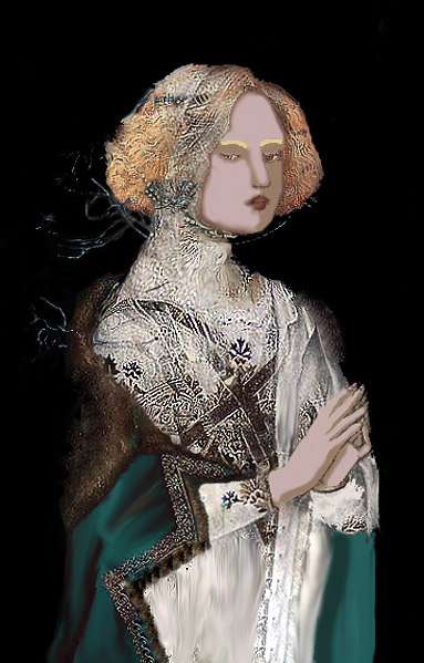 Blanche of Bourbon, Queen of Castile